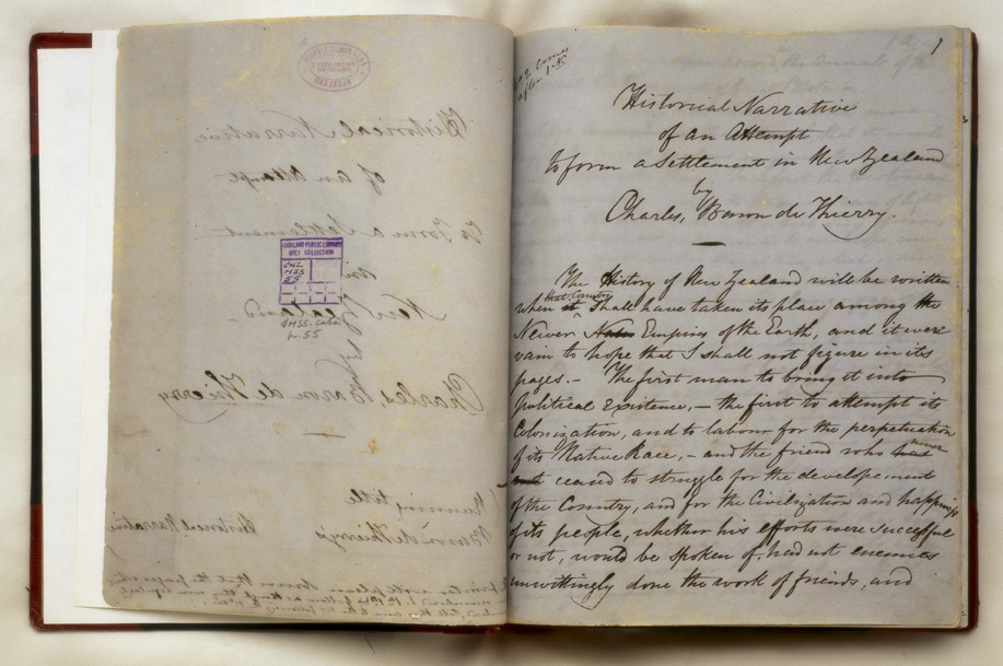 Page one of a manuscript entitled 'Historical narrative of an attempt to form a settlement in New Zealand' by Baron de Thierry. Sir George Grey Special Collections, Auckland Libraries, GNZMS 55, photo ref: 7-C1893.